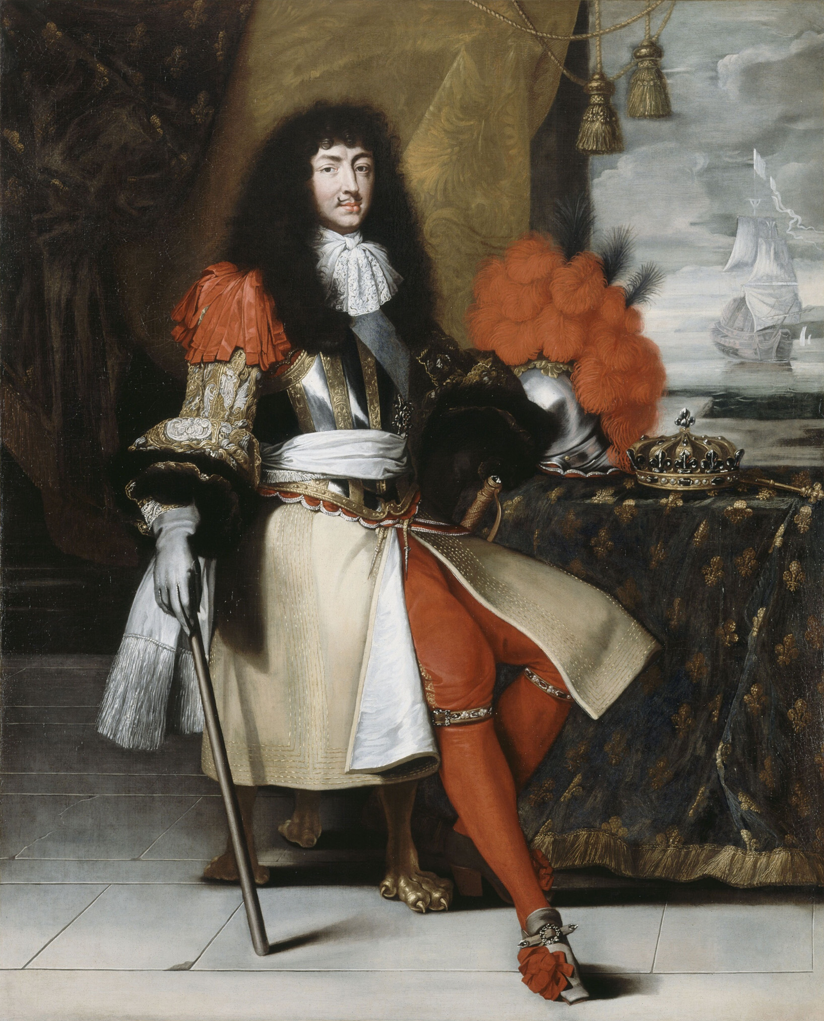 The original portrait by Claude Lefèbvre, from which the Versailles painting is derived, is located at the Isaac Delgado Museum of Art, New Orleans. It must have been considered an important painting at the time, since it was engraved in its entirety and in great detail by Nicolas Pitau in 1670. [Ref: Claire Constans, "Louis XIV, King of France and Navarre (1638–1715)" in Constans & Salmon 1998, p. 59]